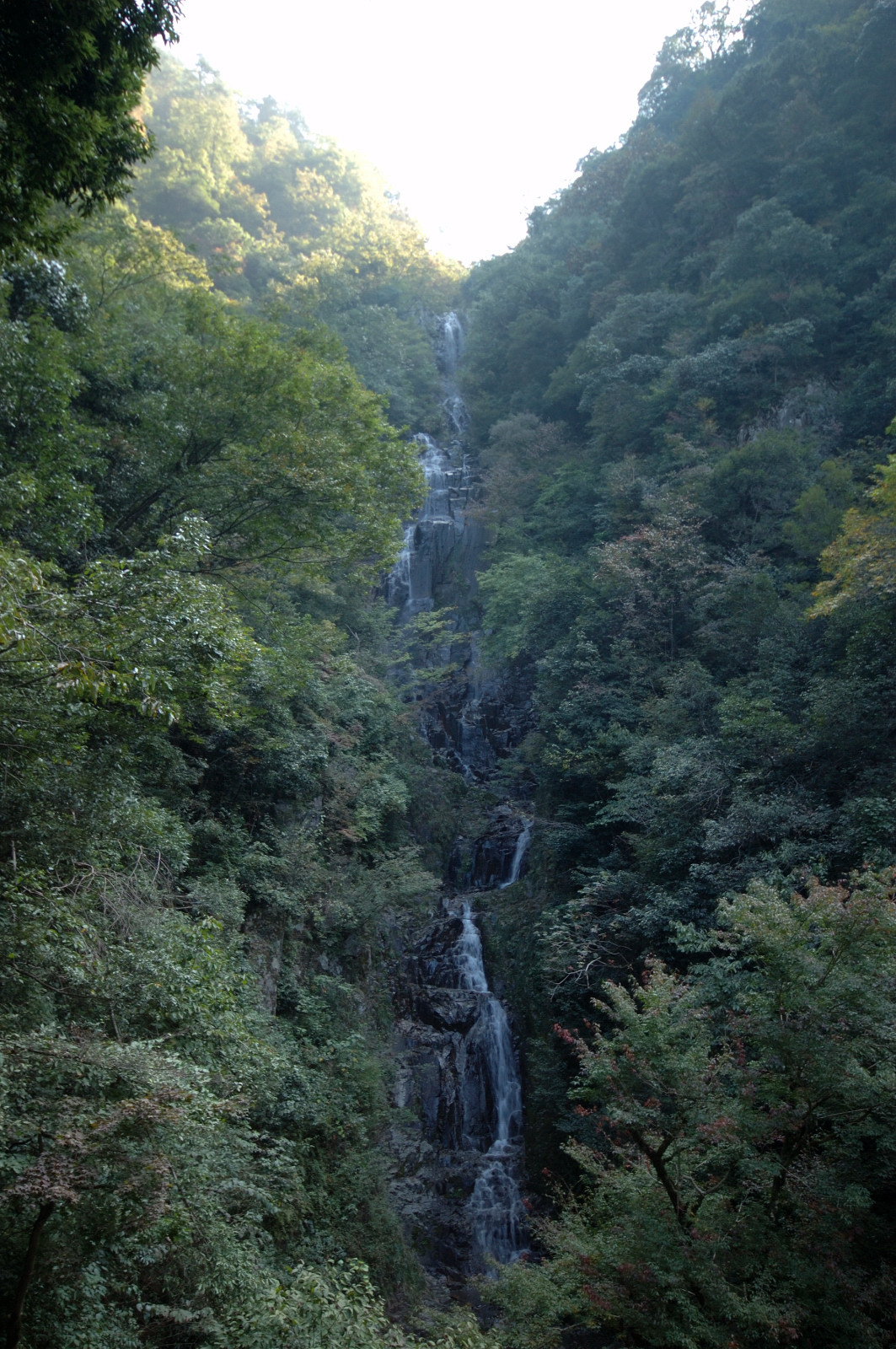 Jouseidaki is a waterfall in Sakugi, Miyoshi, Hiroshima, Japan